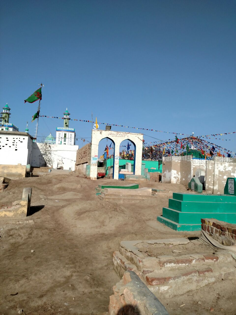 Shah Aqeeq Shrine out side view